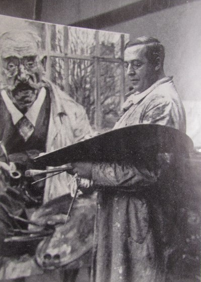 Egon Tschirch 1929 in front of painting "Prof. Franz Bunke"